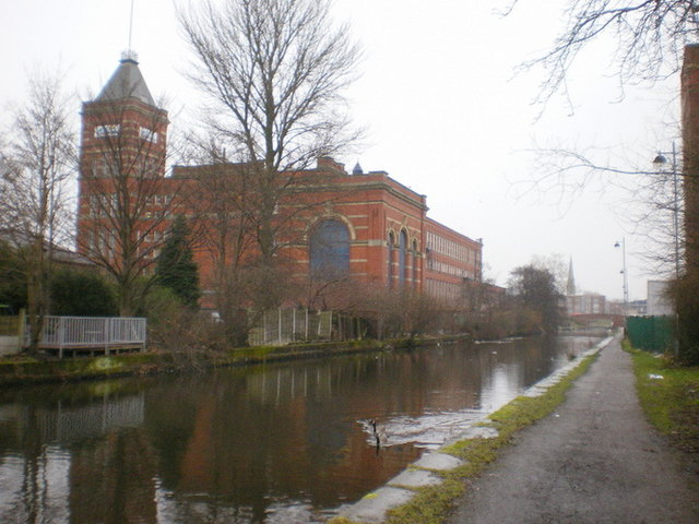 Regent Mill, Failsworth